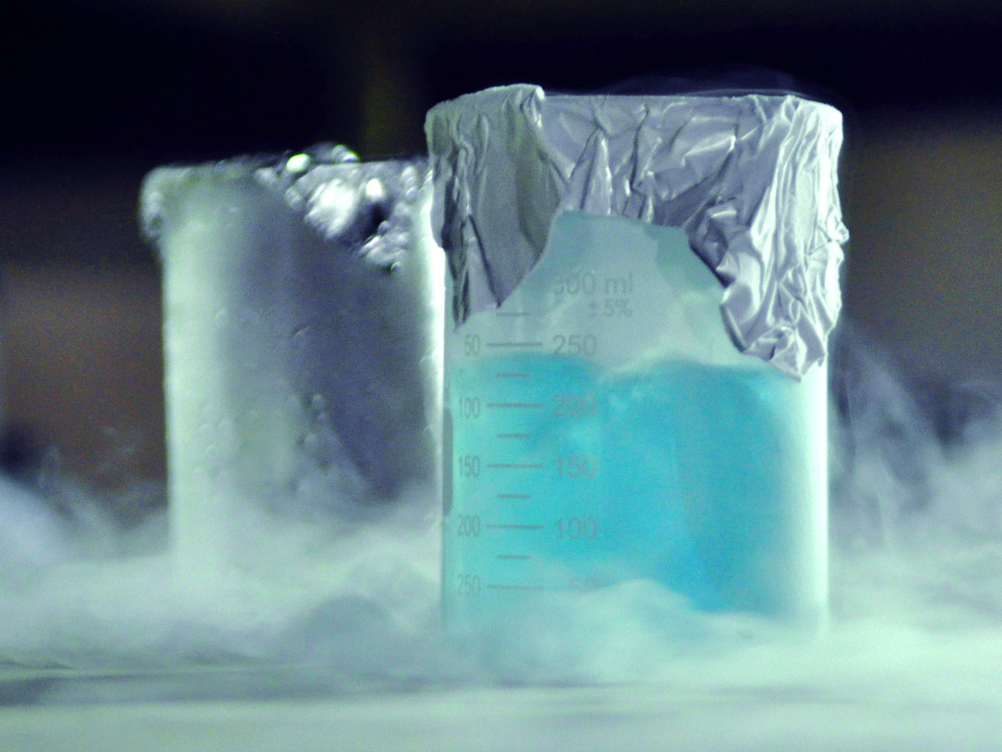 Liquid oxygen